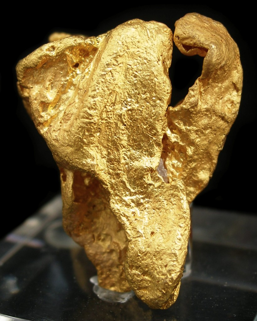 Gold Locality: Lake Carey, Western Australia, Australia (Locality at ) Size: 3.8 x 3.5 x 2.4 cm. I have seen a lot of Australian golds over the years and among them there are few I treasure more than specimens which show these strange, large crystallized casts, very rarely found amidst the common "nuggets". This is an unusual locality from which not much specimen gold is produced, and this specimen was in the F. John Barlow Collection (sold off in 1998). He was a notorious gold collector, with hundreds of specimens from worldwide localities, each aiming for a unique quality or feature. It has a huge octahedron measuring 2 cm across. This piece now is actually a thick cast of gold over an earlier (one wonders, brief?!) generation of the ancient octahedral gold crystal once at its core. Somehow, during the specimen's formation or a later re-melting sequence, the form of the original octahedron was preserved as a hollow cast here. Nevertheless, the specimen is surprisingly hefty at 77 grams and is very robust. I find it particularly interesting to see the 2 cm octahedron perched next to a ropey, elongated, "tortured" outgrowth, making for a nice contrast.